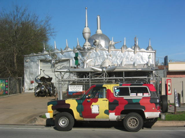 Art Car Museum (image courtesy of DON "The Emissary" SERIBUTRA)